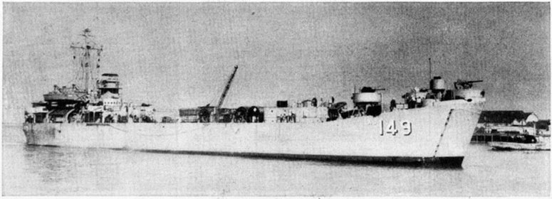 USS League Island (AG-149) underway, date and location unknown.